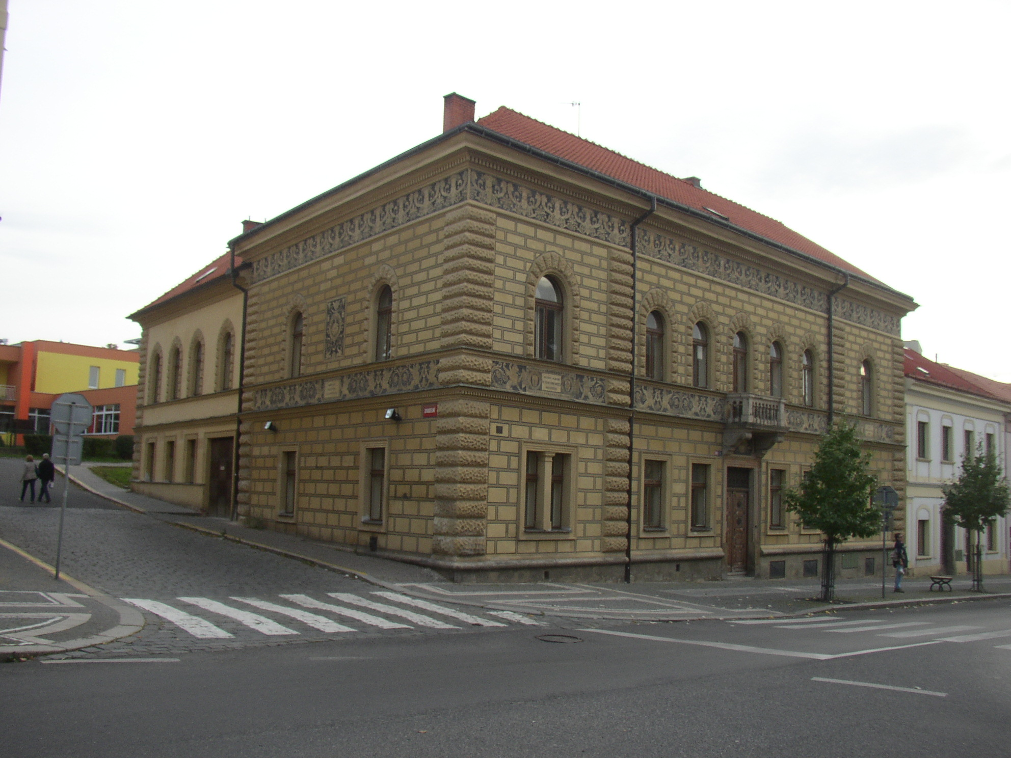 House No 560, Wilsonova Str., in Slaný, Kladno District, Central Bohemian Region, Czech Republic. View from the north.